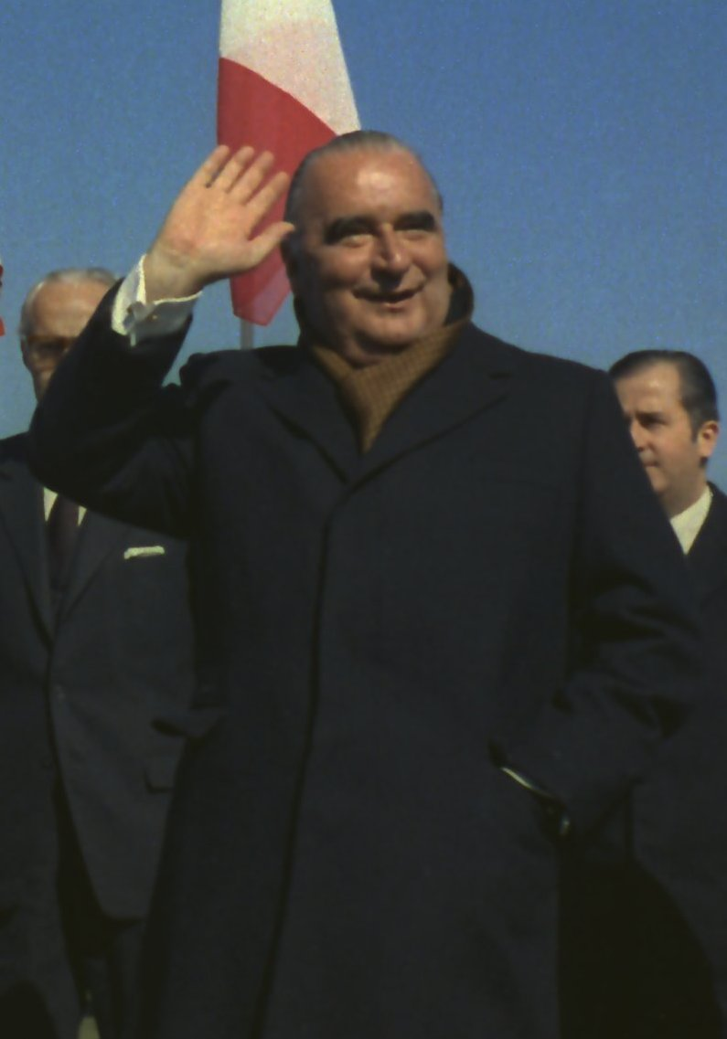 French President George Pompidou prior to U.S. French summit conference in Reykjavik, Iceland